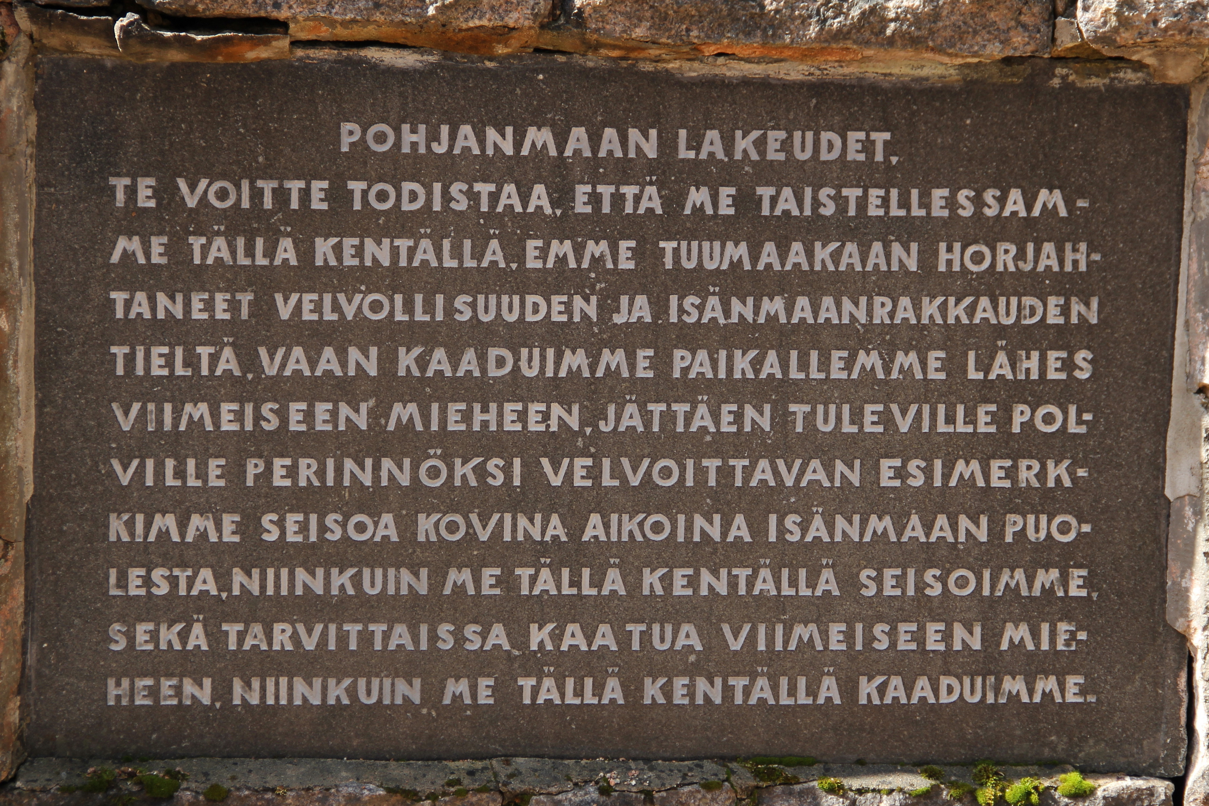 Battle of Napue memorial, Isokyrö, Finland. - Stone plaque in monument.